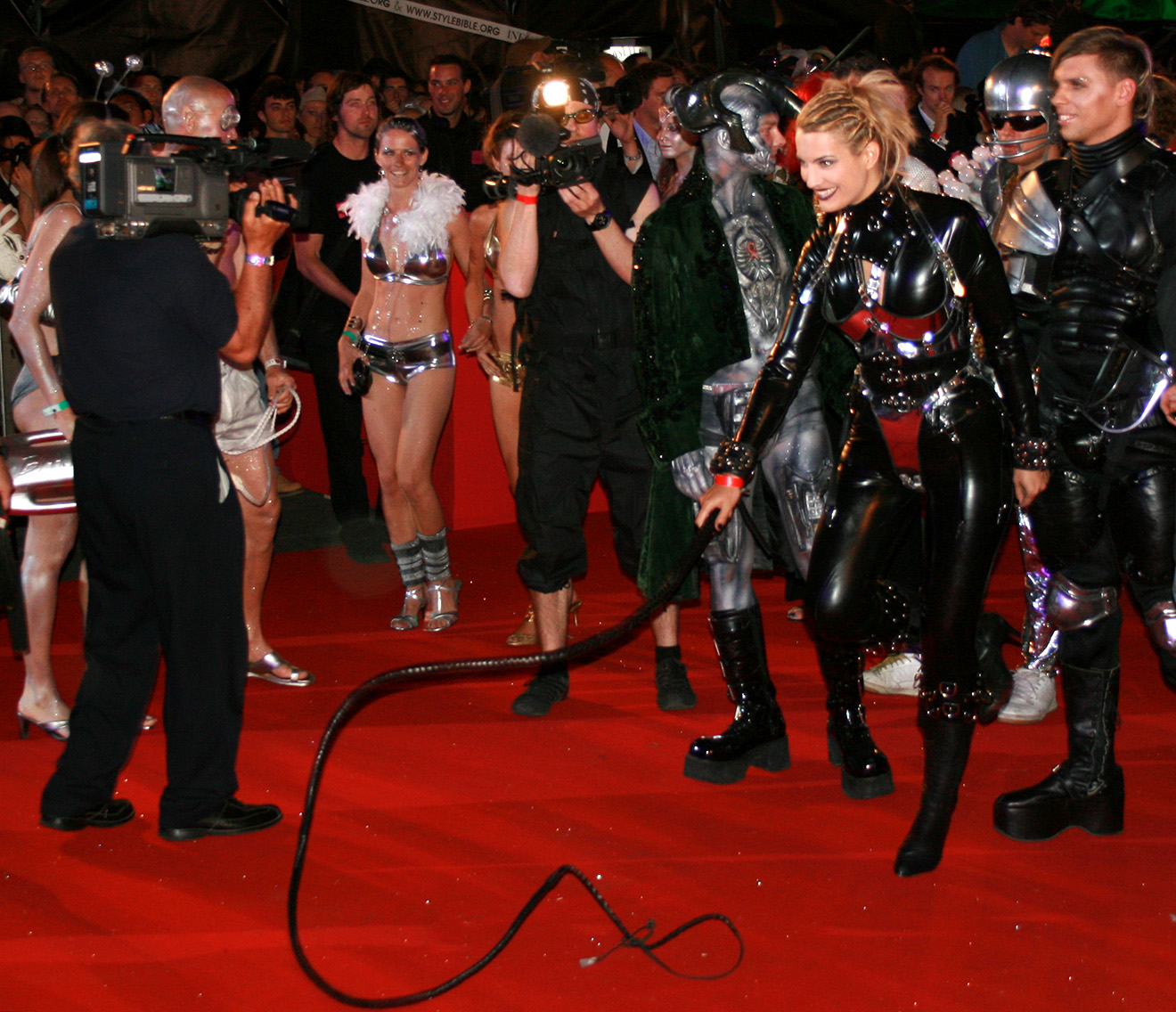 Life Ball 2008: Austrian band Zweitfrau at the red carpet in front of the city hall of Vienna.